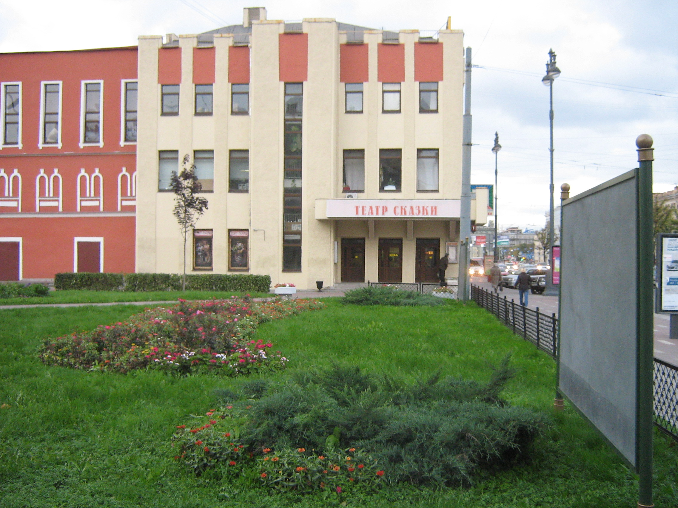 Saint Petersburg (Russia), Moskovsky Avenue.